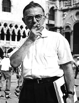 Jean-Paul Sartre in Venice, Italy (Jean-Paul Sartre a Venezia, Italia)